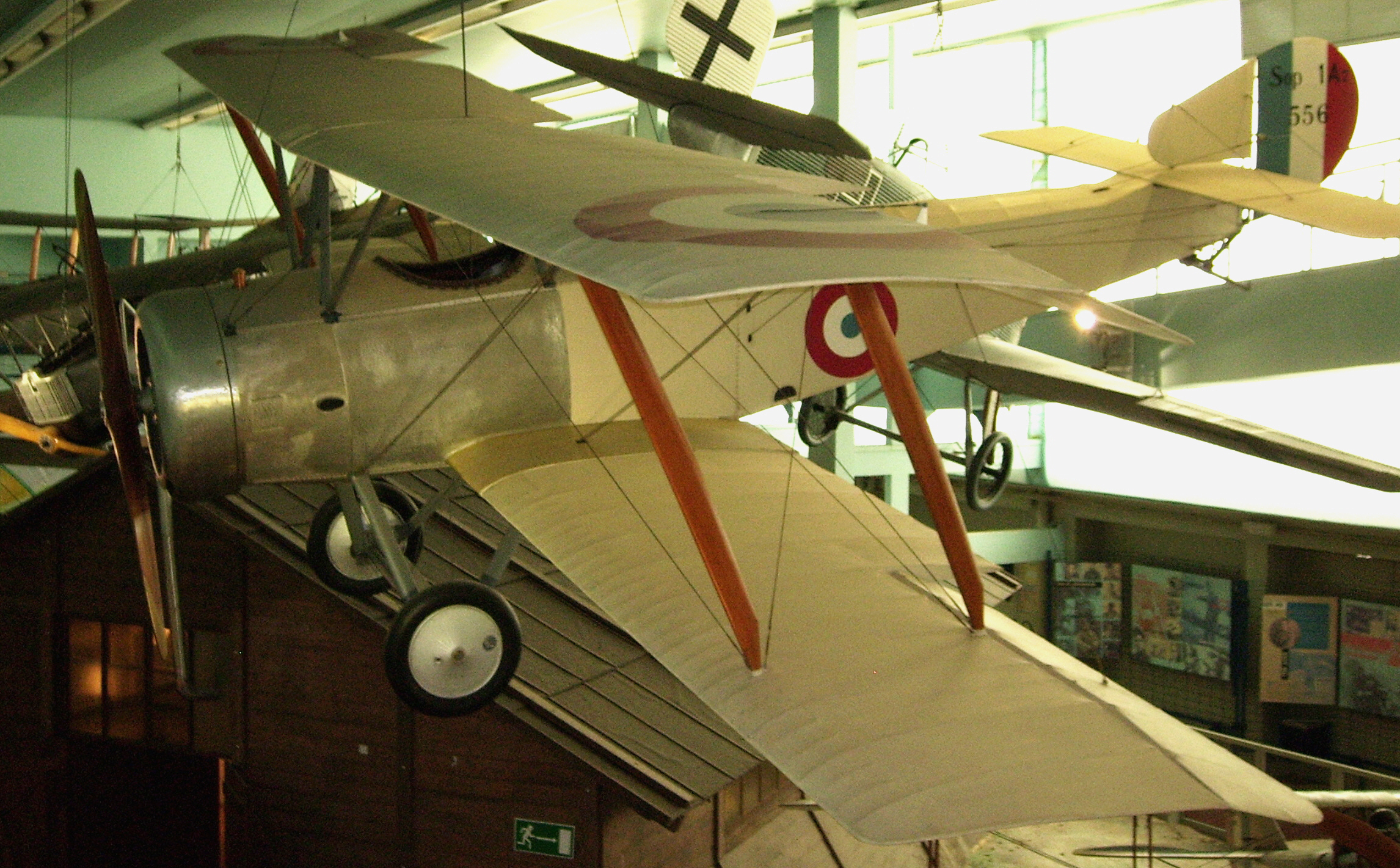 Sopwith One-and-a-Half Strutter preserved at the Musee de l'Air et de l'Espace Paris Le Bourget